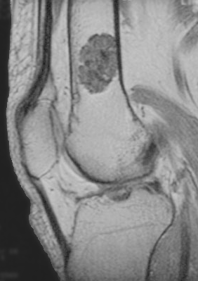 MRI T1 showing an Enchondroma in the thigh bone.